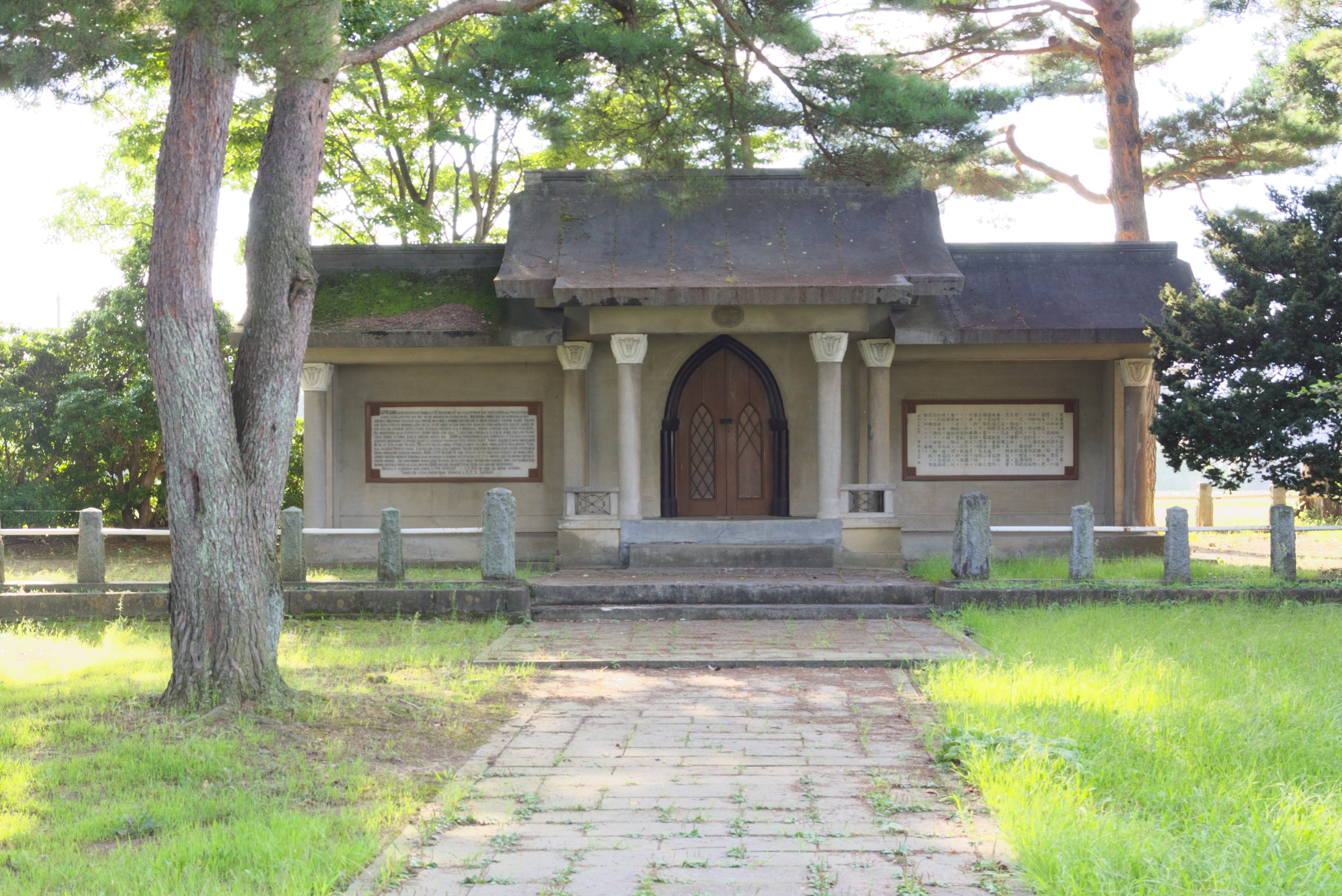 Japanese old clistian Juan Gotoh(後藤寿庵)'s mausoleum at oushu city, Japan.